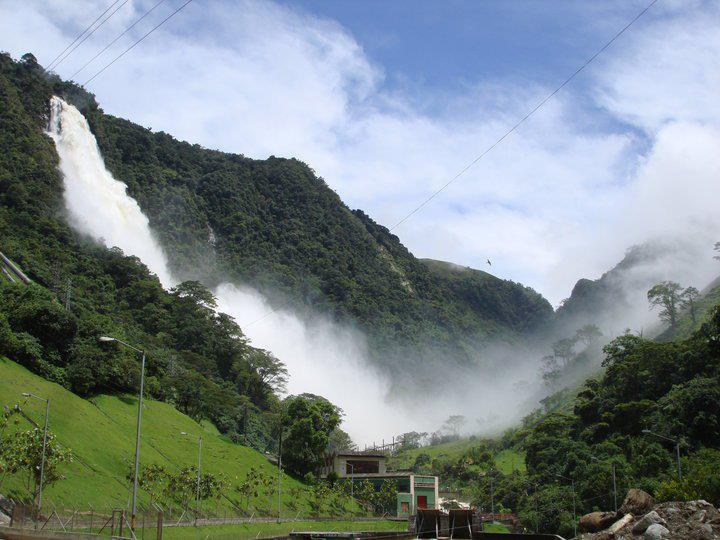 Esta es la famosa cascada que se encuentra al lado del teleférico.